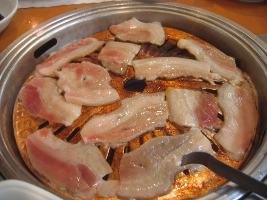 Korean bacon, Samgyeopsal or ì‚¼ê²¹ì‚´